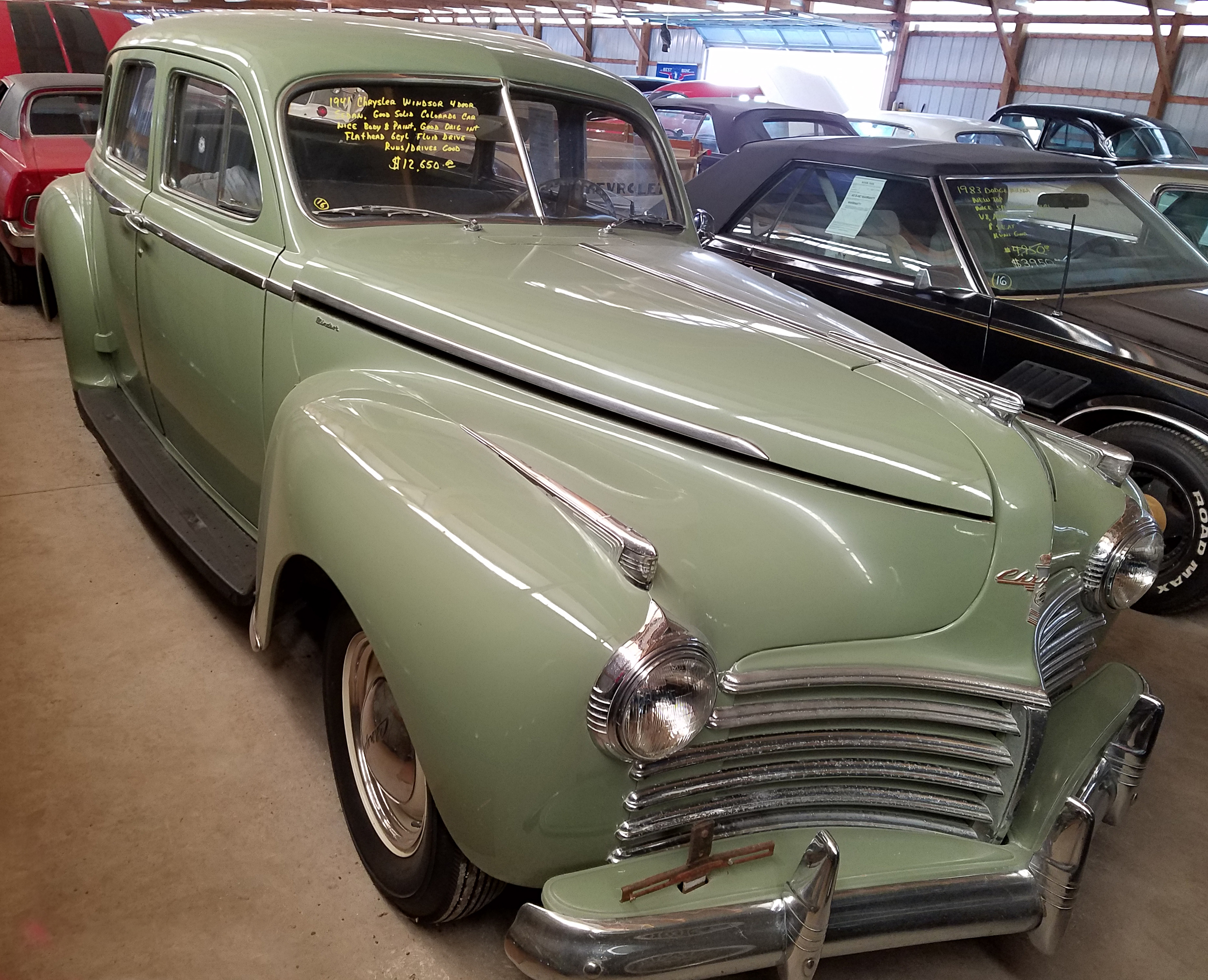 1941 Chrysler Windsor 4-door sedan